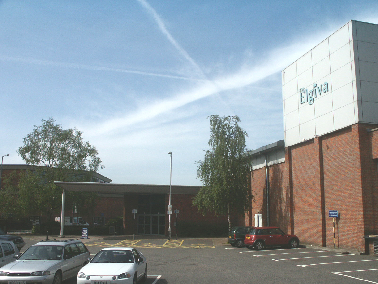 Elgiva Theatre, Chesham.